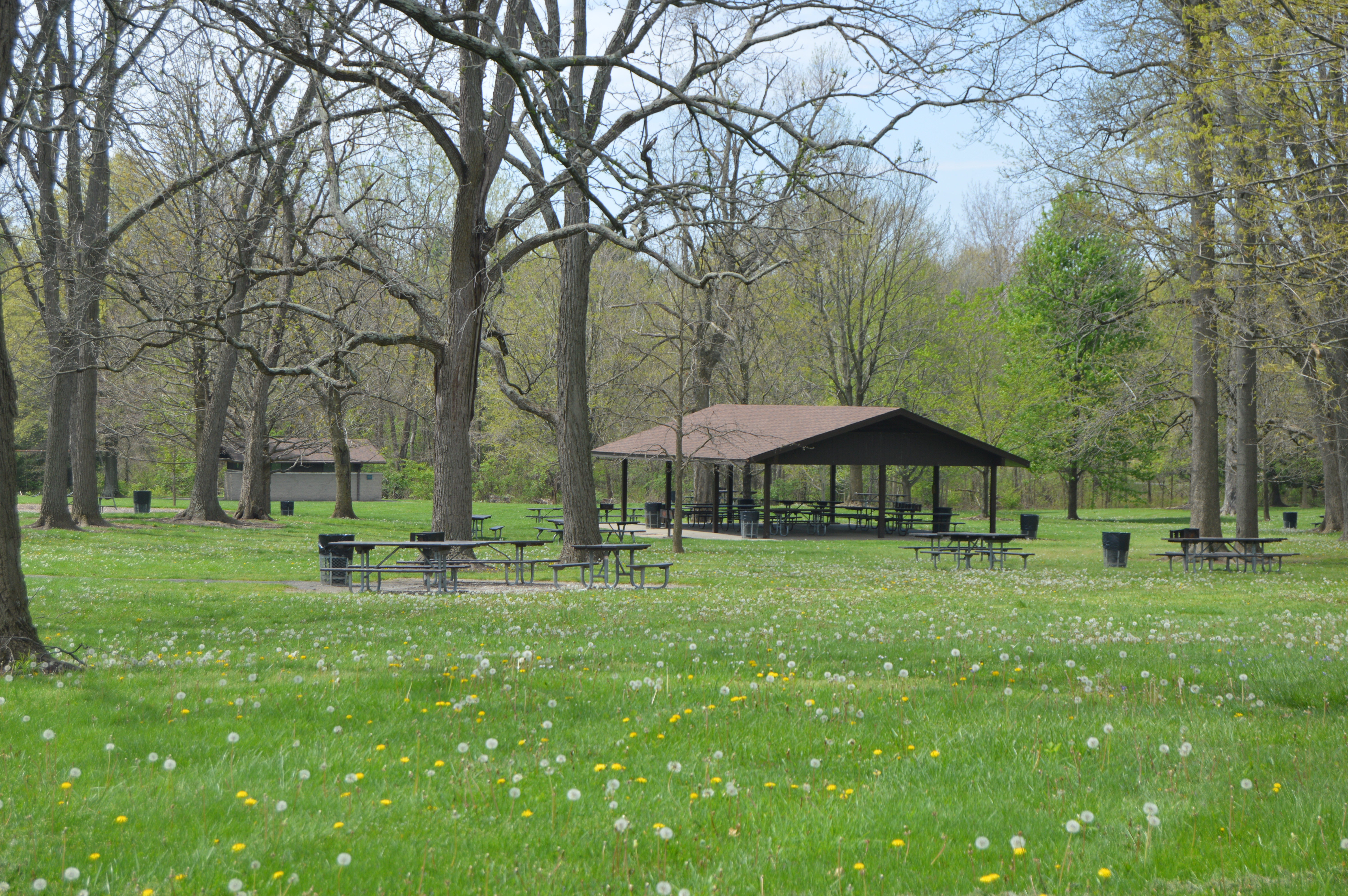 Picnic grounds at Sharon Woods Metro Park, which comprises the largest portion of Sharon Township, Franklin County, Ohio, United States.